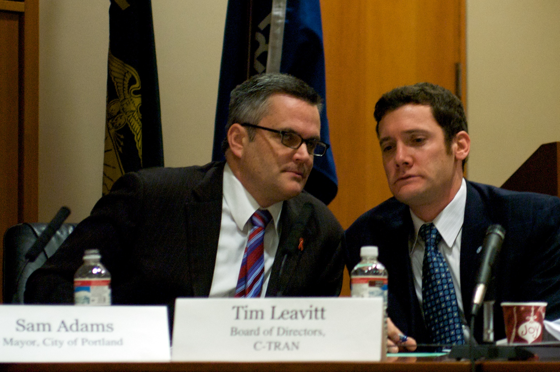 Portland Mayor Sam Adams with then-City Councilor Tim Leavitt at a meeting regarding the Columbia River Crossing Project. Leavitt is now Mayor of Vancouver, Washington.